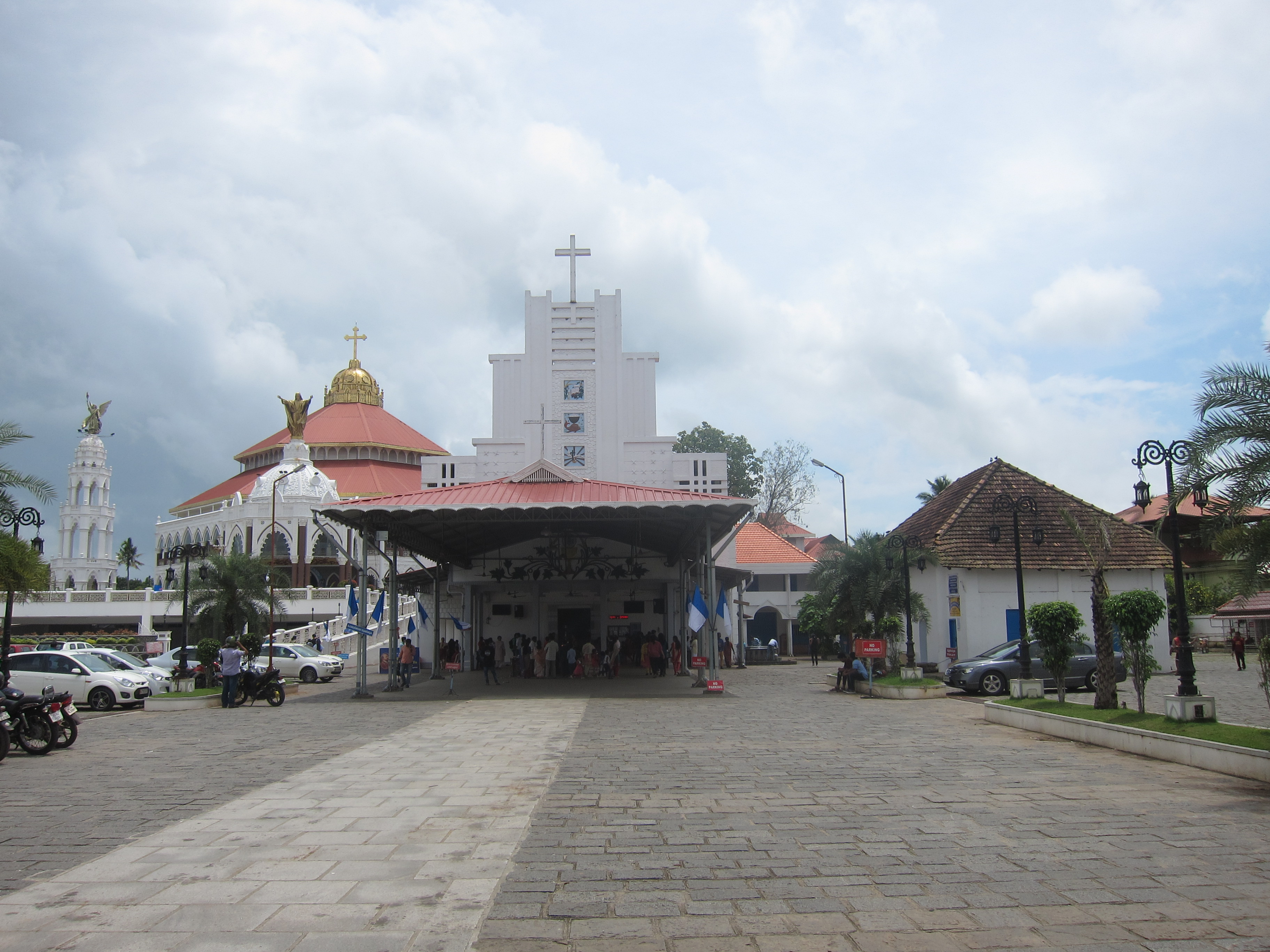 Edappalli Church - ഇടപ്പള്ളി പള്ളി